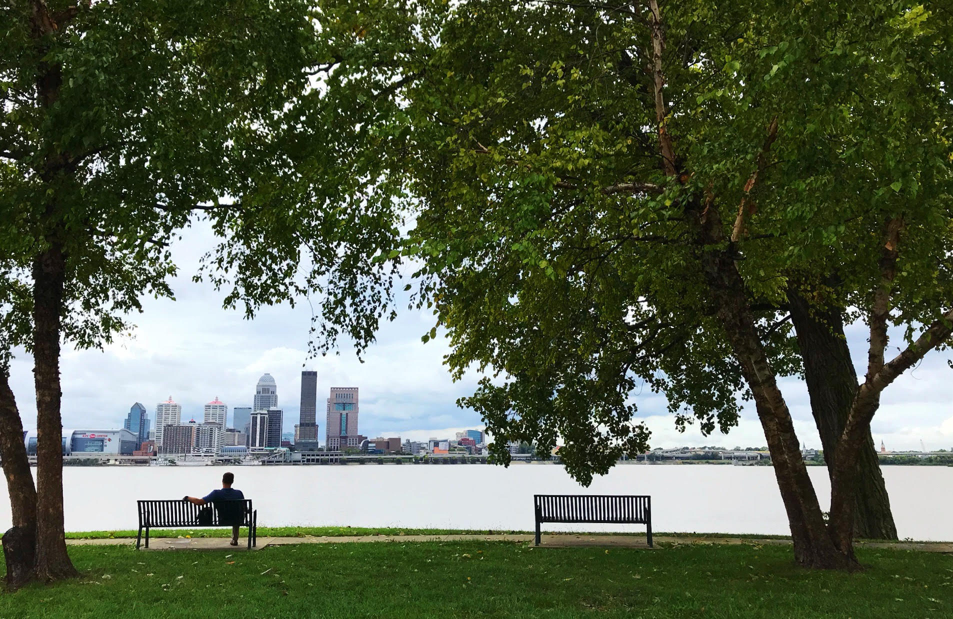 The greenway space in Clarksville offers sweeping views of Louisville and the Ohio River.